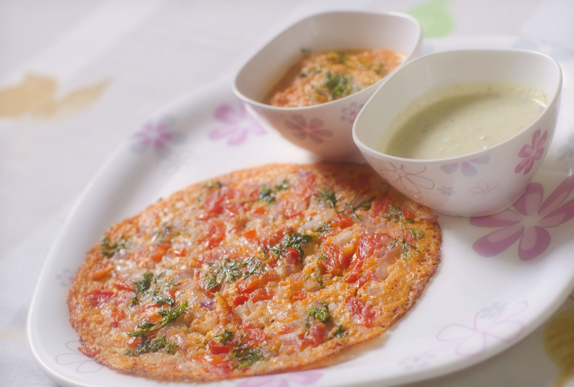 This a one of the many varieties of Dosas prepared in India and is special breakfast. made with ground tomatos and much seasoning, it tastes best with chutney (either coconut or tomato & cereal)